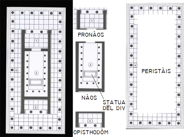 Horizontal Section of Syracuse Athenaion (Piedmontese version)Piemontèis: Le part an session orisontal dël Templi d'Aten-a a Syracusa